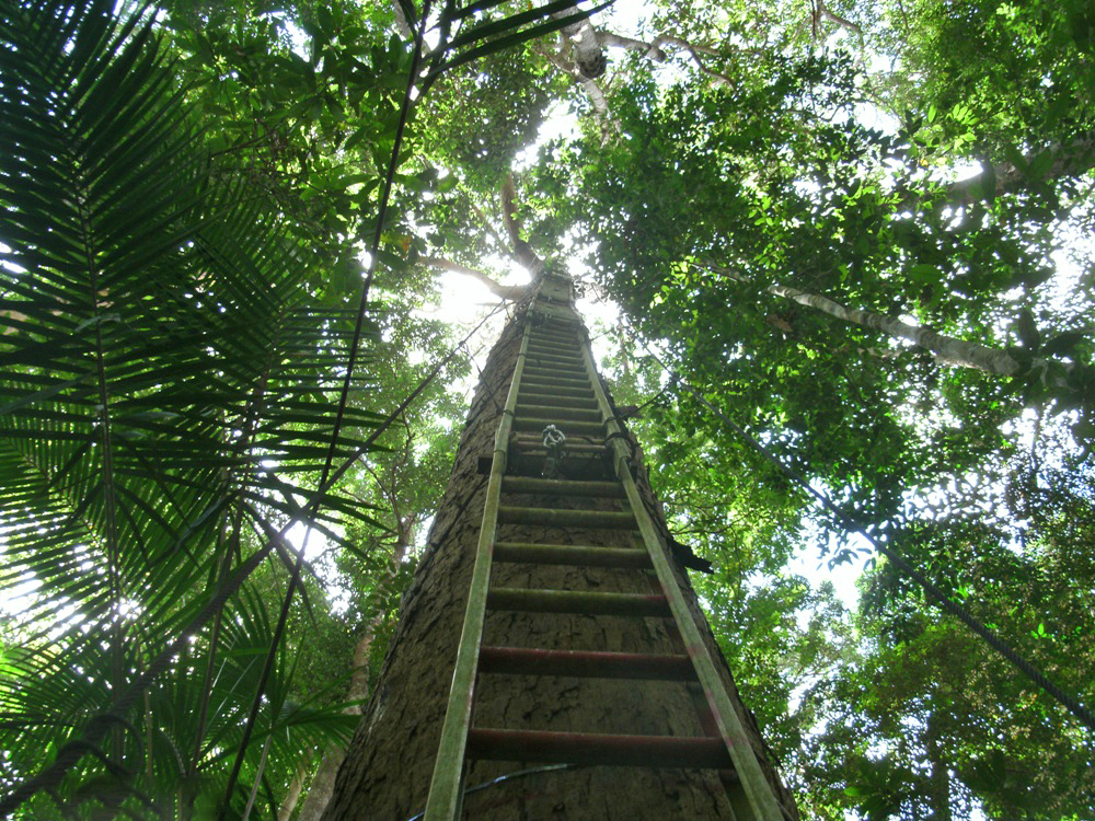 Lambir Hills National Park, photo from the book "Six months on the islands ... and countries" ISBN 978-5-9908234-0-2